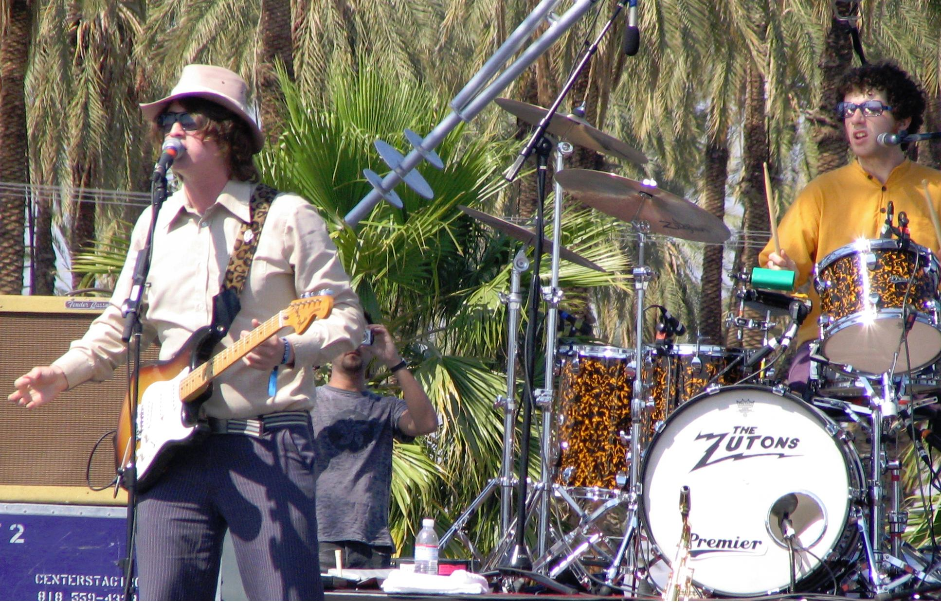 The Zutons playing at Coachella 2006